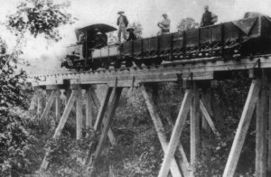 600 mm gauge Phủ Lạng Thương-Lạng Sơn line in Vietnam